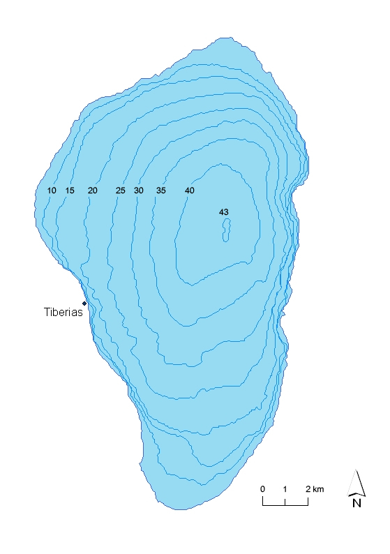 Bathymetric map of Sea of Galilee (Lake Kinneret). Depths are in metres.